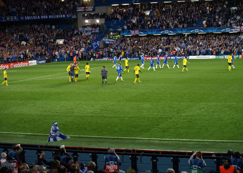 Barcelona take on Chelsea at Stamford Bridge on 6 May 2009